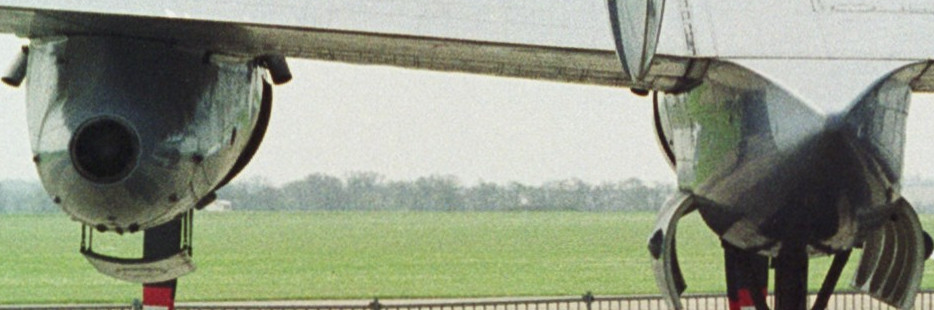 Left wing engine nacelles on Avro Shackleton MR.3 XF708, viewed from behind. This shows the outer (i.e. on left) engine nacelle with exhaust opening for auxiliary Armstrong Siddeley Viper turbojet, housed behind the Rolls-Royce Griffon piston engine. Compare to the inboard (i.e. on right) nacelle which does not carry the Viper.